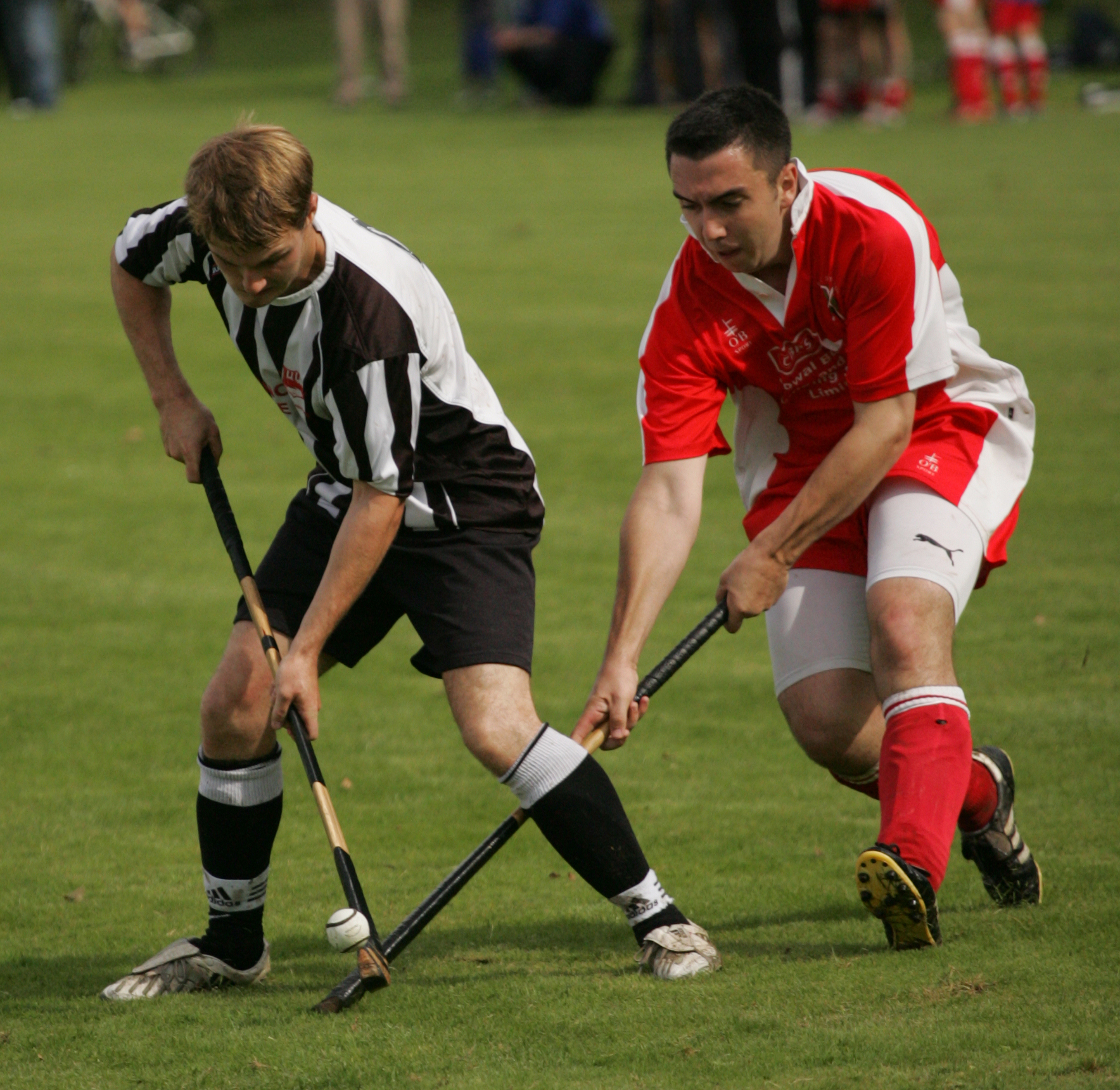 Game of shinty in Bute.